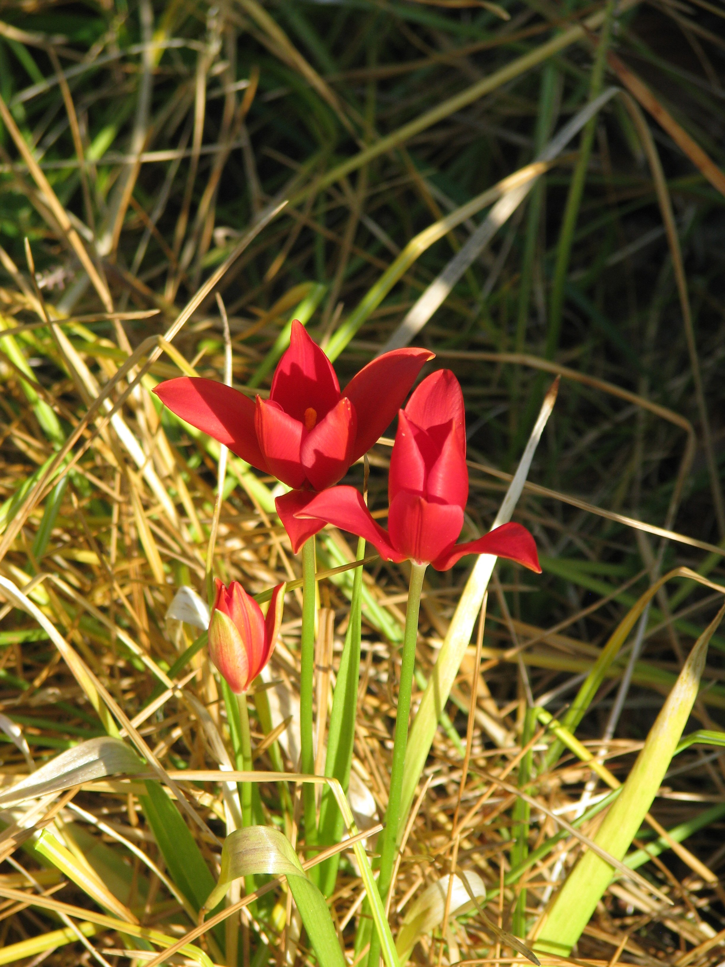 Beginning to seed itself interestingly around the garden and popping up in unexpected places. A peculiar tulip - completely hardy and perfectly adapted to British gardens - it grows, at Pool Meadow anyway, in the open and among other plants, on the heavy clay as well as the poorer drier soils you'd expect Tulips to do well on. The seed is produced copiously and I've 'helped' it get about pretty indiscriminately. I wonder how long it takes to get from seed to flowering plant?